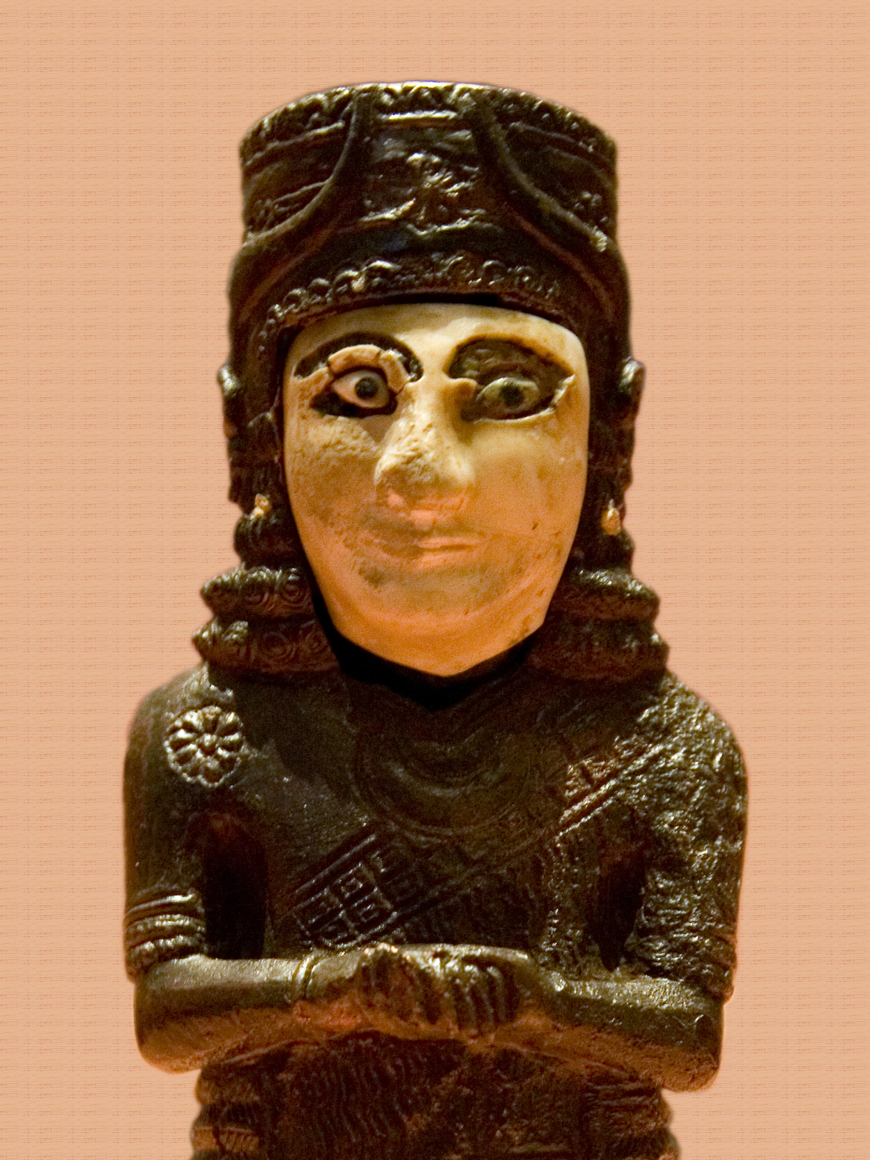 Urartian God